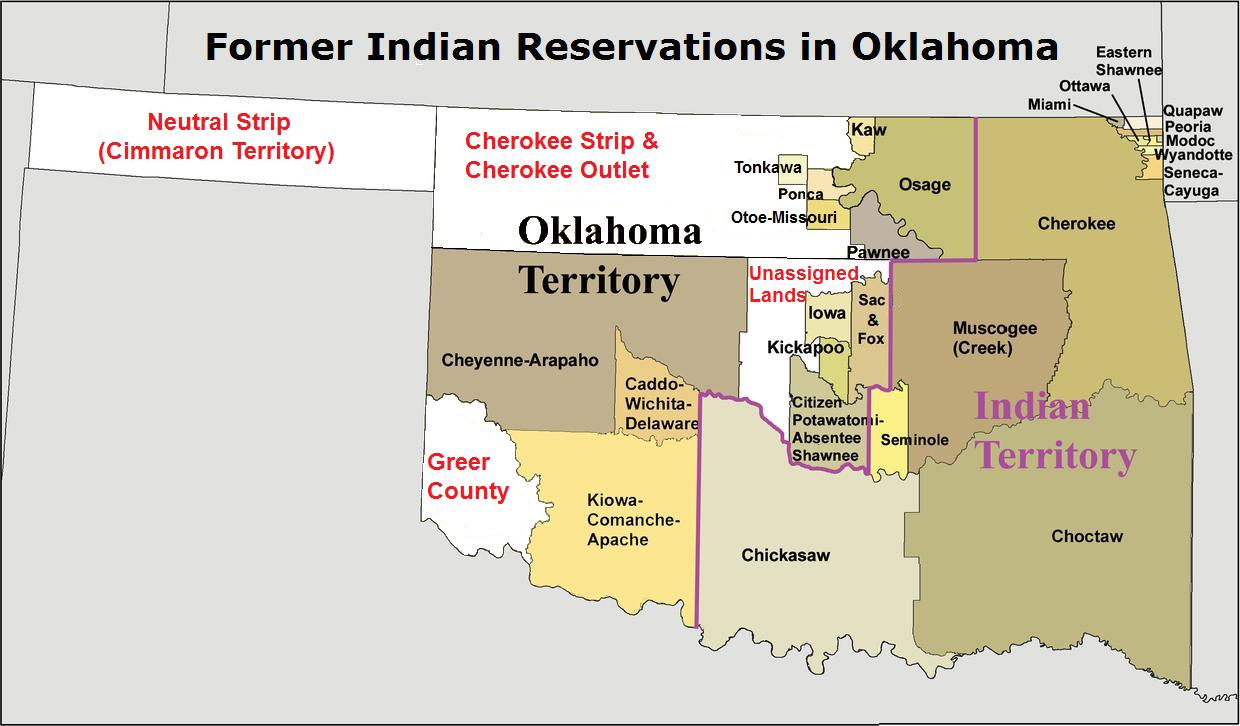 Map showing "Former Indian Reservations in Oklahoma" as originally defined In 1998 by the IRS issued Notice 98-45